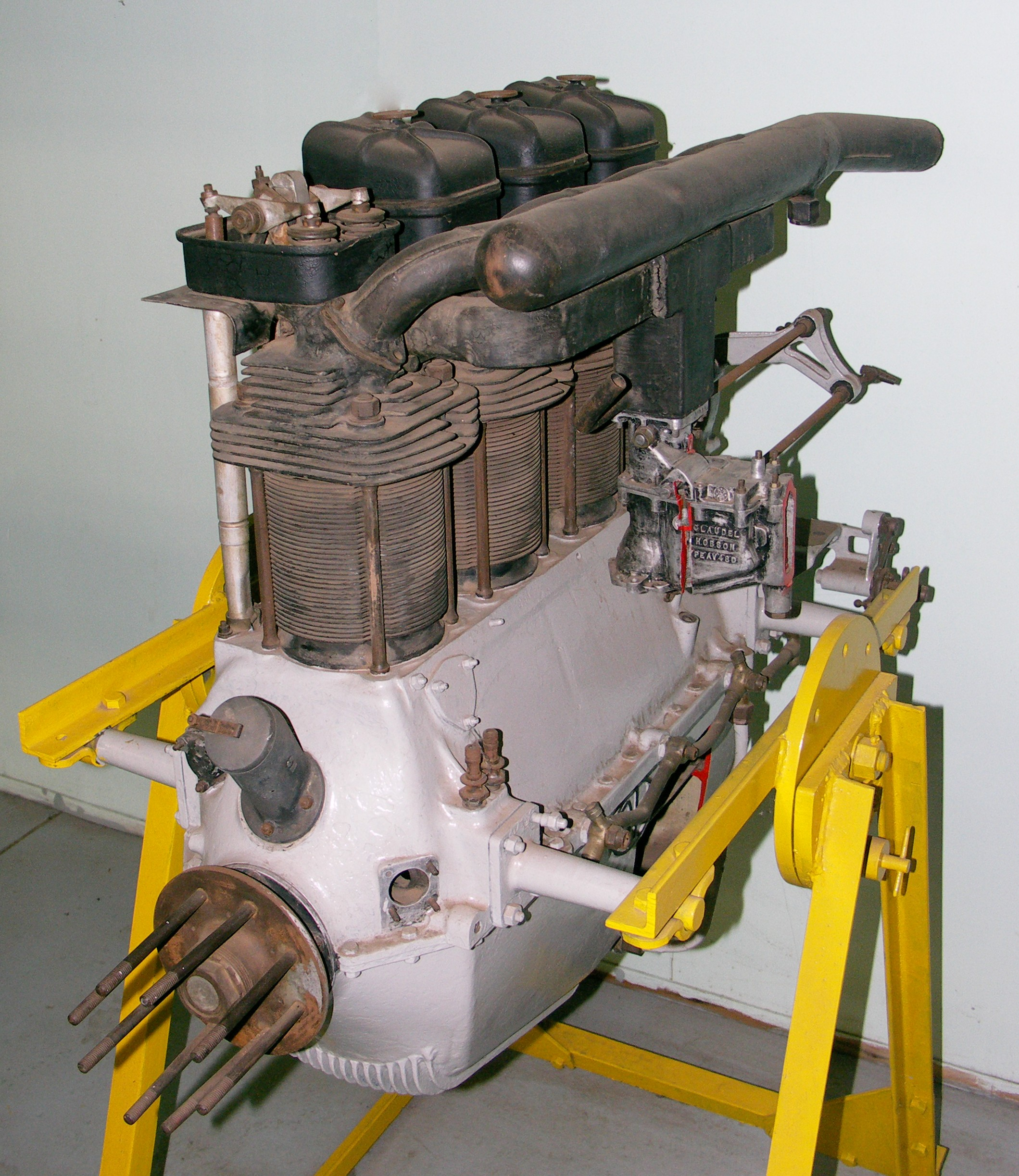 De Havilland Gipsy II aircraft engine at the South Africa Air Force Museum, Swartkop